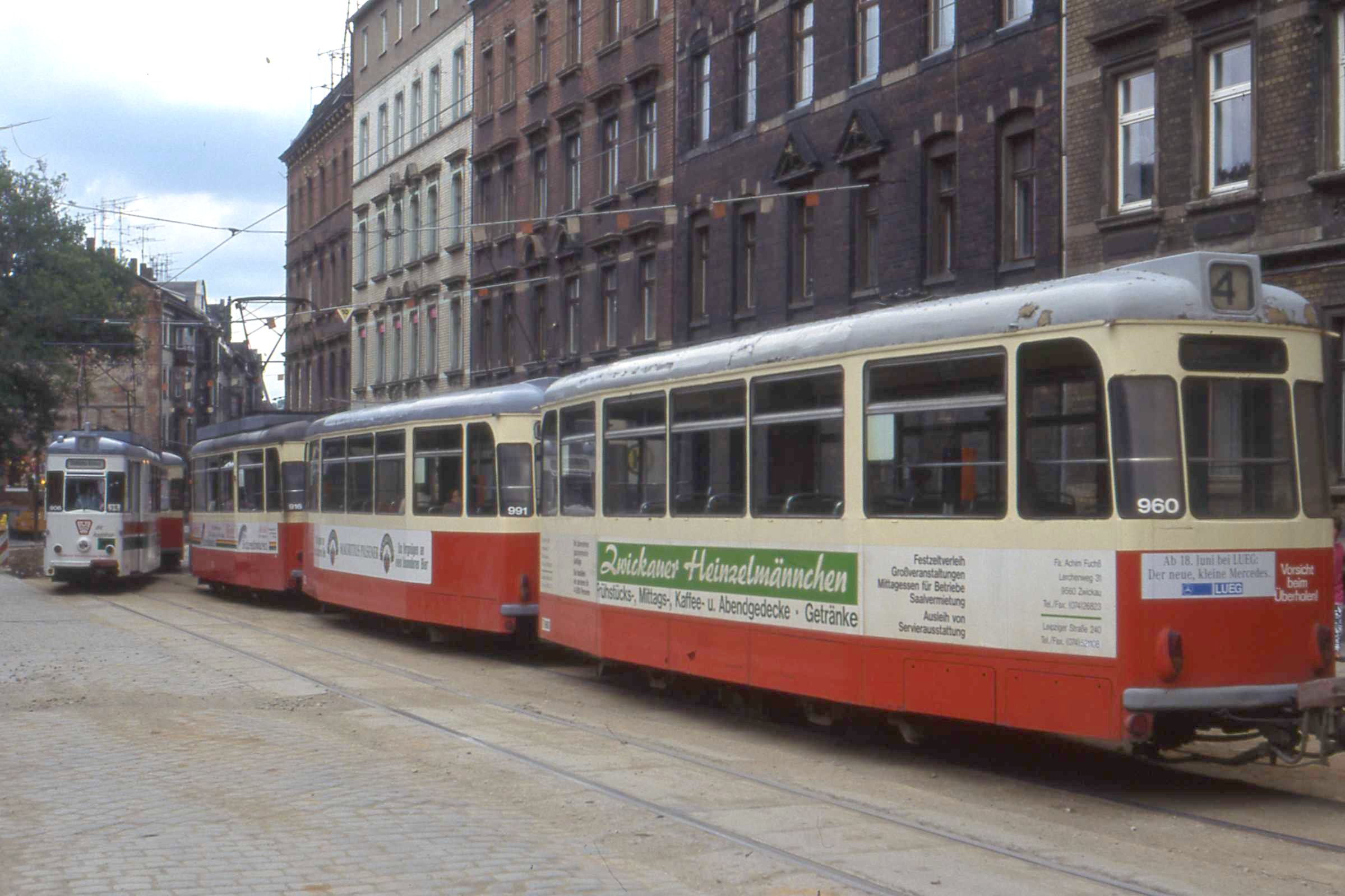 Two gotha sets meet on Linie 4 in Zwickau. (Is double track trunning here about to become eingleisig?) The judiciously place fleet numbers mean that we can identify motor car 906 approaching the camera and 919 followed by trailers 991 and 960 pointing in the opposite direction. 919 was scrapped in 1994, formerly no 137, a 1967 CKD T2D. the trailers are listed here 960 was one of six acquired from Plauen in 1989. It was scrapped later in 1993. Trailer 991 was formerly 244 and was acquired by Arad in Romania in 1996, where it ran until 2003. motor car 906 was renumbered 956 later in 1993 and in 1995 became no 4 in the fleet of Bad Schandau. The T2D and B2D units were built in Prague by CKD after tram production was centralised in Czechoslovakia for the RGW countries.